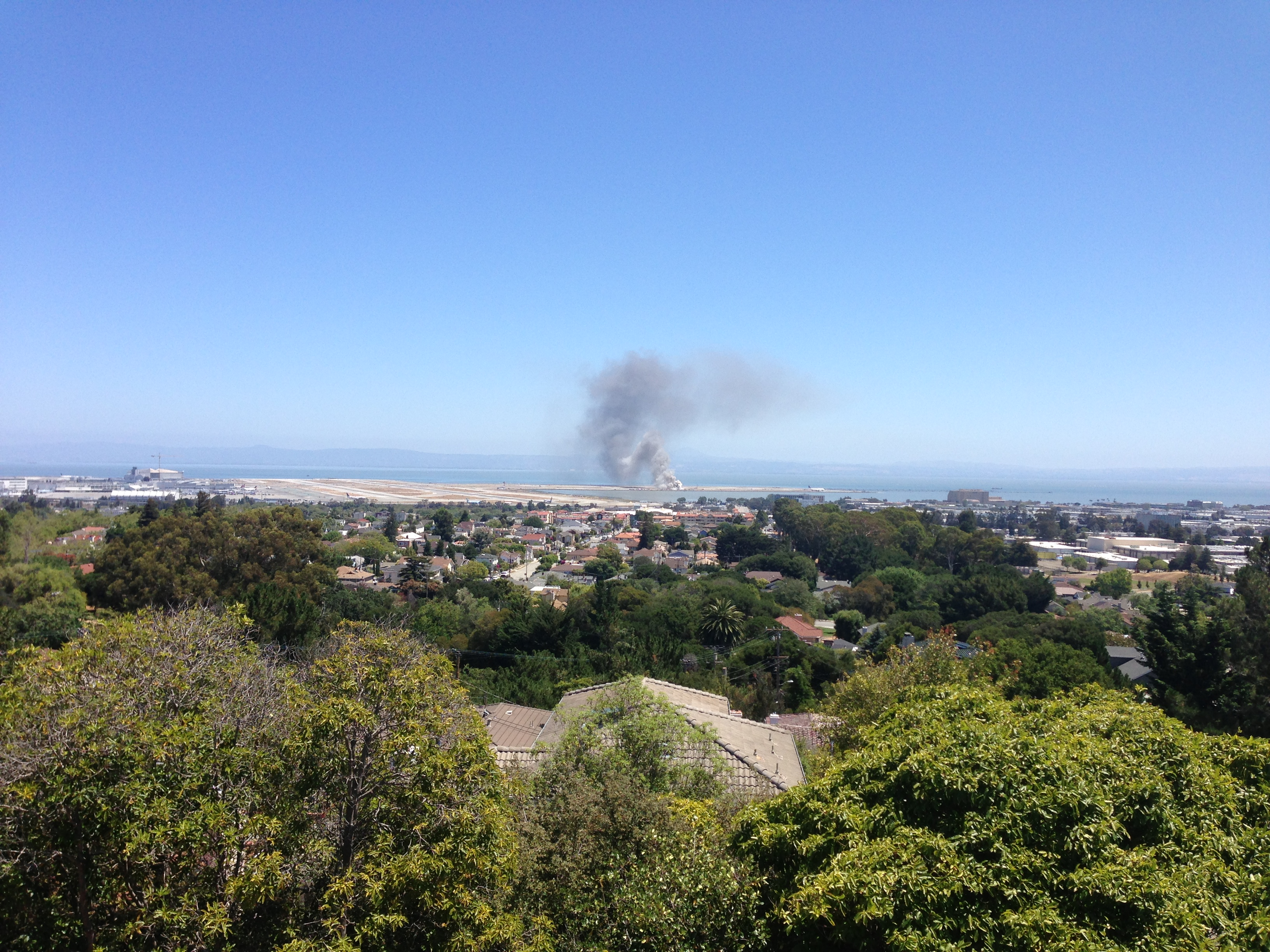 A picture of the SFO Plane Crash taken from Millbrae